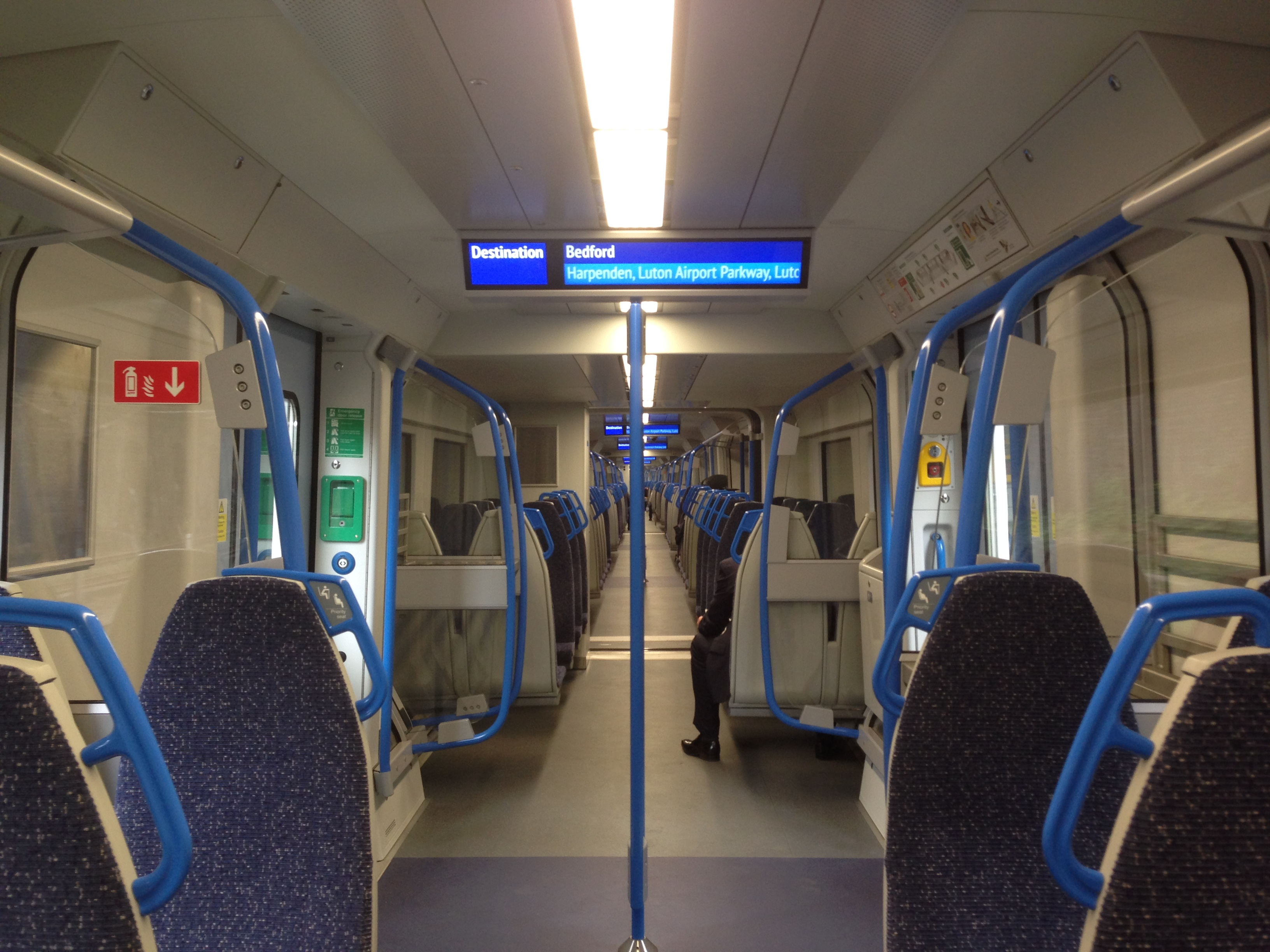 Interior of Thameslink class 700 train.